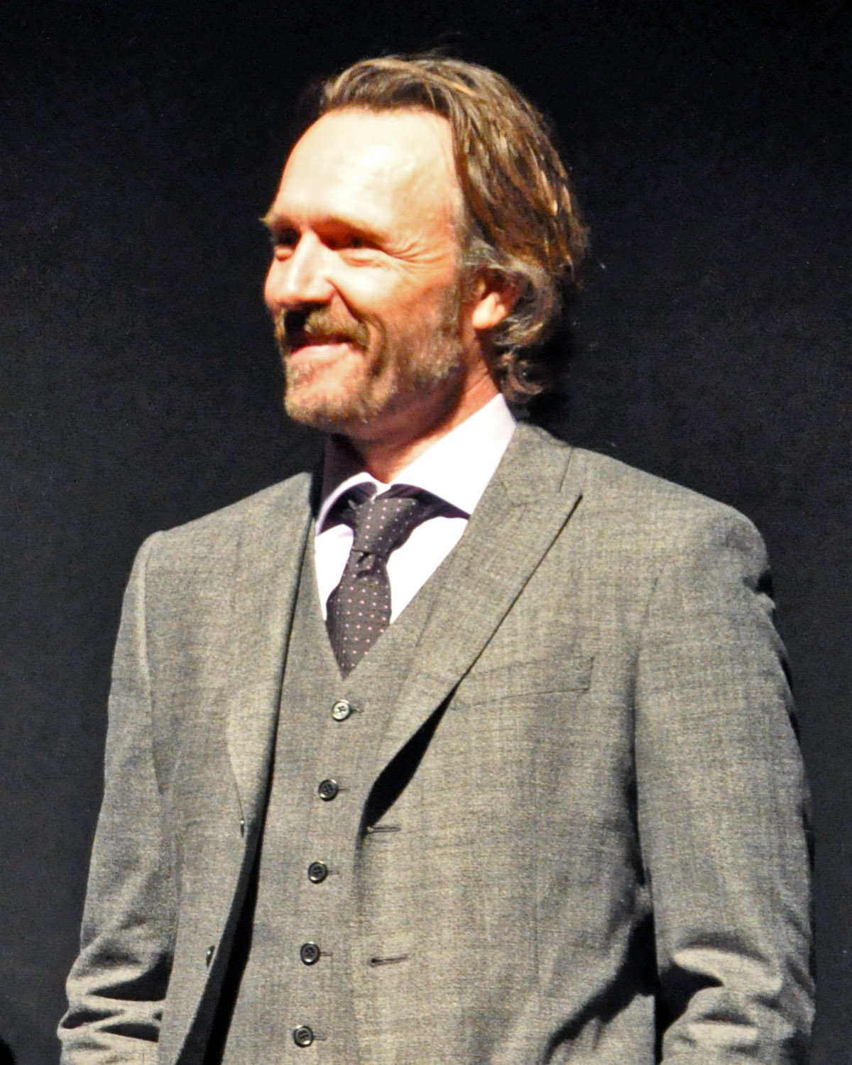 John Pyper-Ferguson, who plays the coach in Score A Hockey Musical. (Elgin Theatre, Thursday September 9, 2010.)